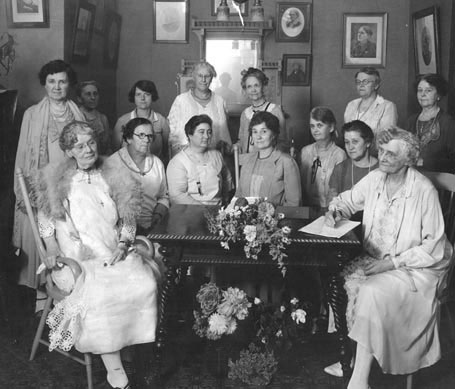 Women belonging to the Committee on Arangements for National W.C.T.U. Convention